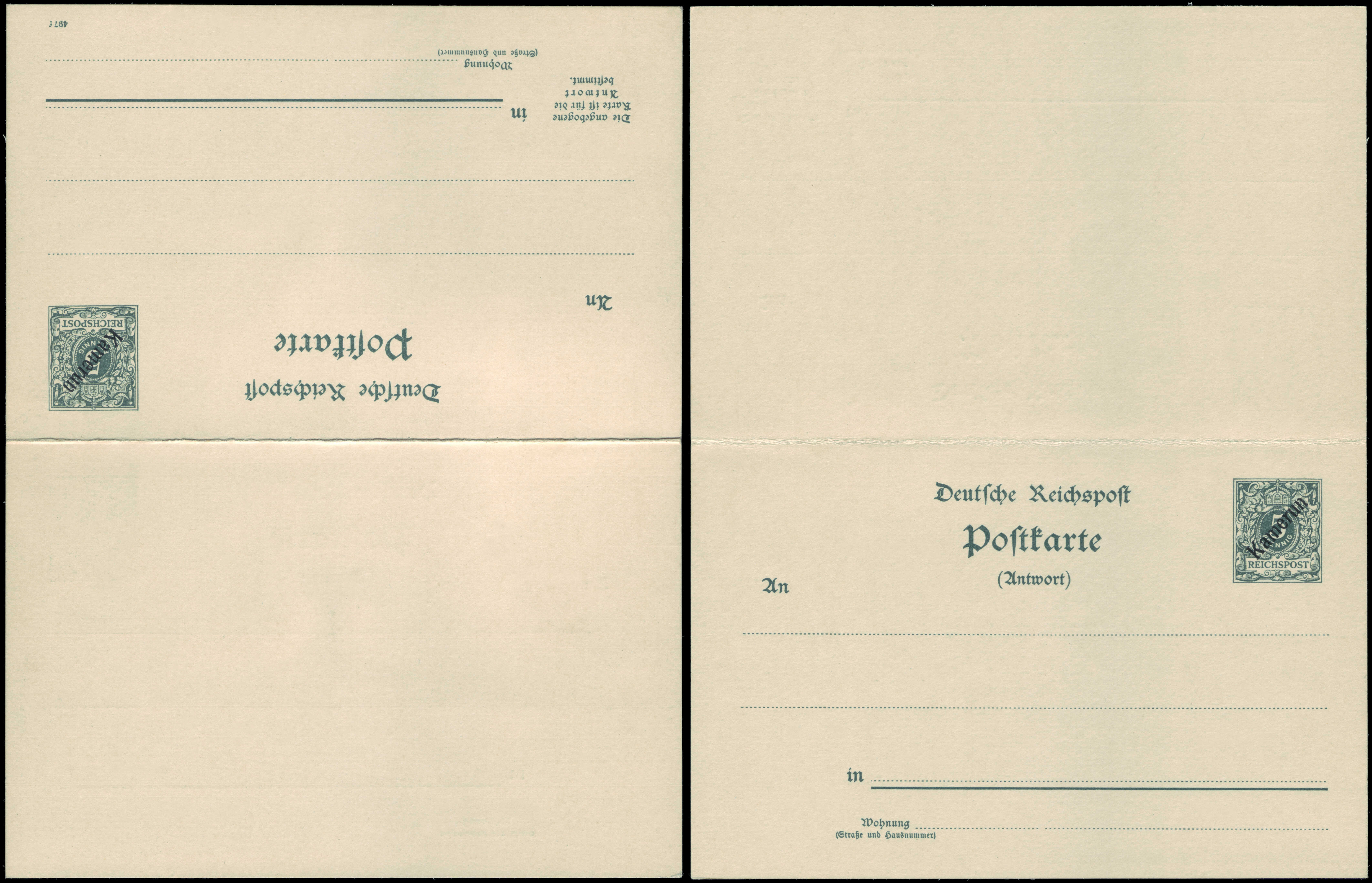 reply card from the German colony Cameroon, about 1900 Ausgabepreis: 2 x 5 Pfennig